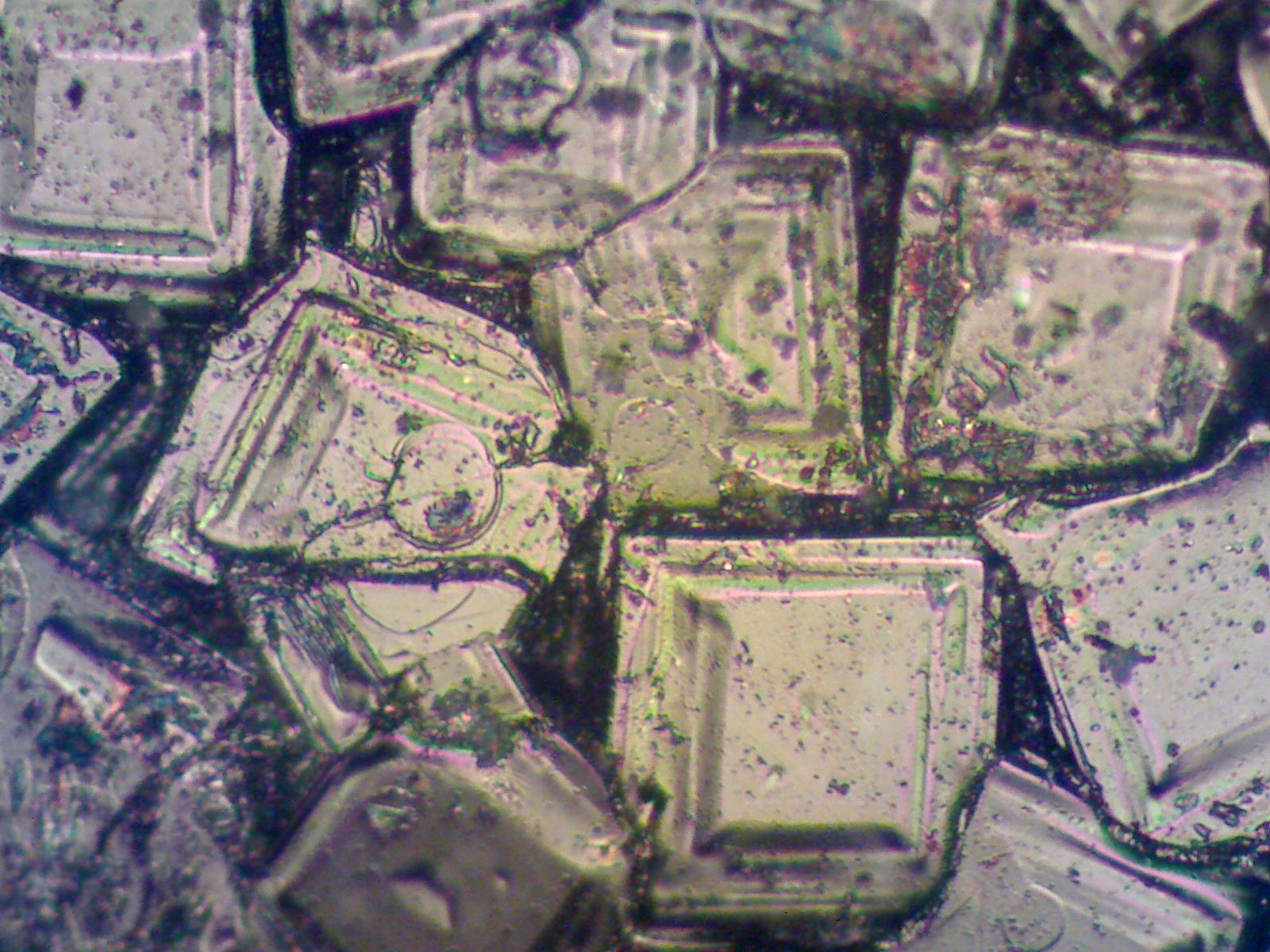 Microphotography of the surface of corundum smelted from aluminum oxide powder by electric arc method in an electromagnetic reactor